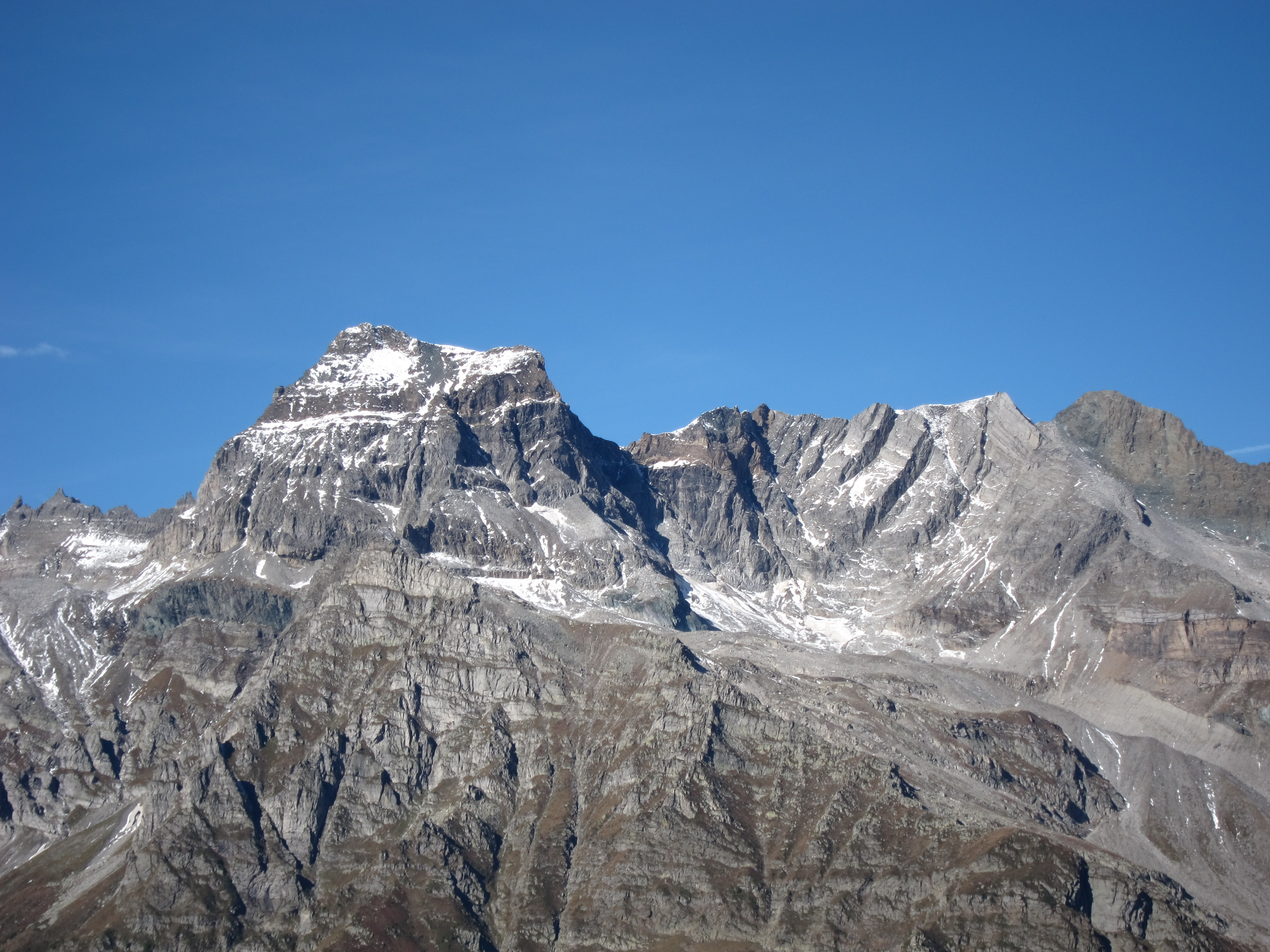 Monte Cervandone (aka Scherbadung) 3211 m.a.s.l. in Devero Valley. Panoramic view seen from Monte Corbernas. The mountain peak is of Monte Cervandone. The Devero valley is in Baceno municipality, VB, region Piedmont, in Italy. Taken on the 3rd of October 2018. 2018-10-03